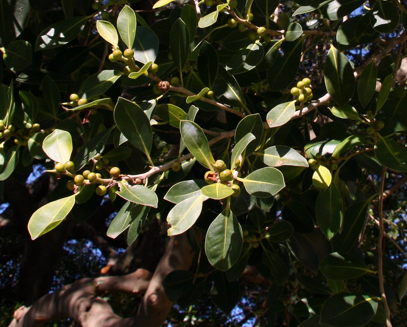 immature fruit, Ficus obliqua, cult. Kirsova Playground, Glebe, Sydney